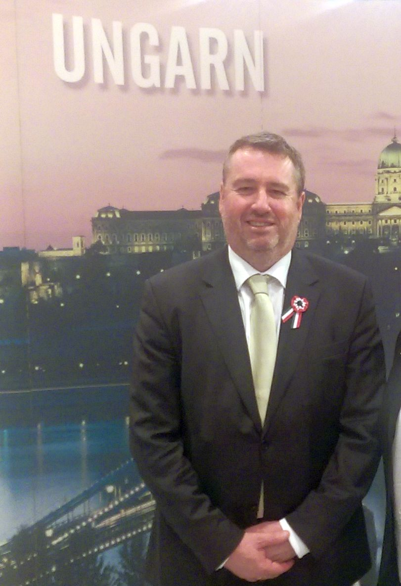 Dr. Györkös Péter